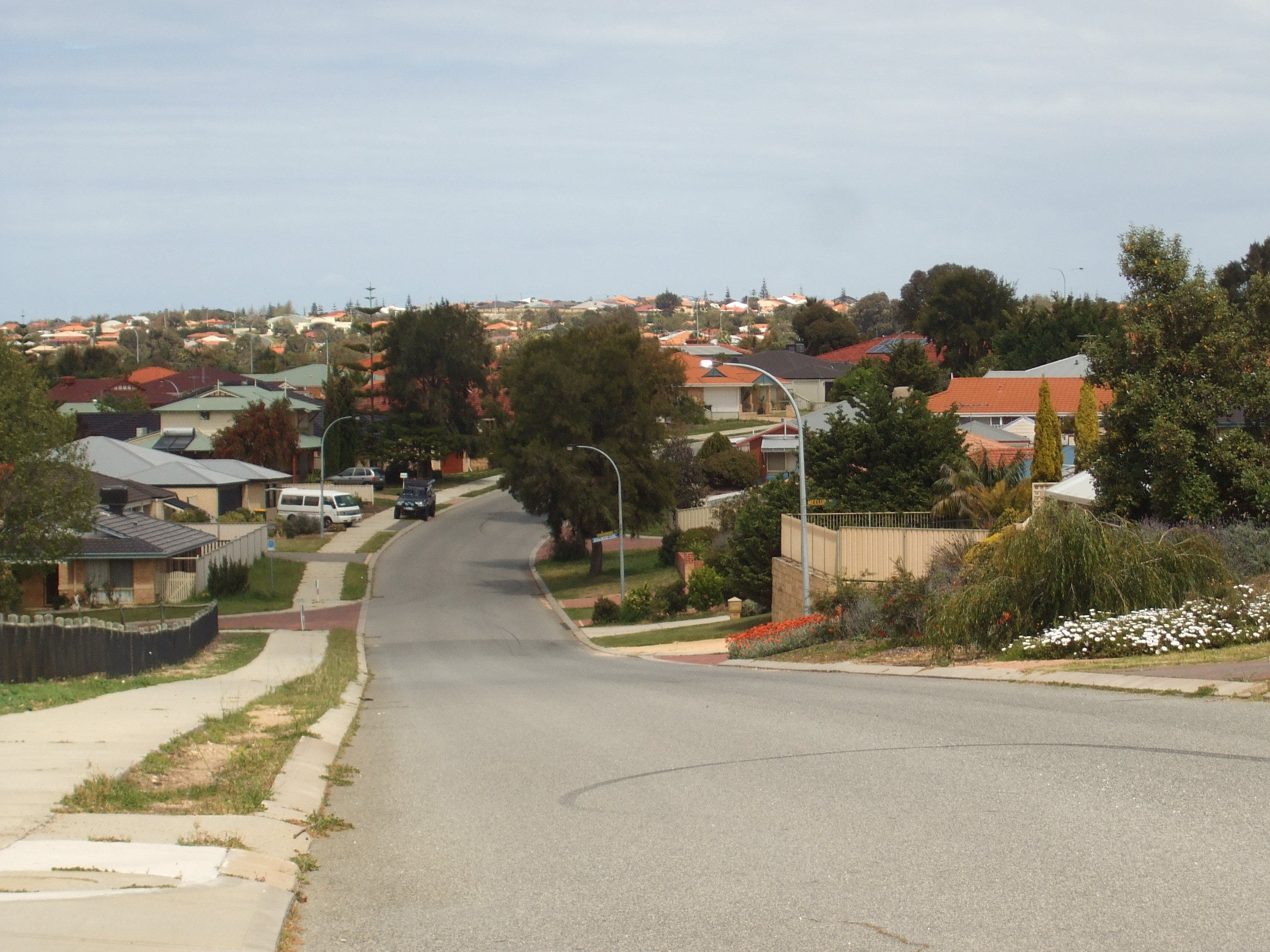 View down the hill on Whitsunday Avenue, Ridgewood, WA.